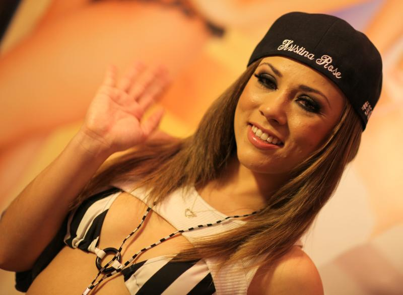 Kristina Rose wearing a black baseball cap. Photos from the 2012 AEE Expo & AVN Awards held at the at the Hard Rock Hotel & Casino in Las Vegas. Photo by Michael Dorausch This photo is licensed under a Creative Commons license. If you use this photo within the terms of the license or make special arrangements to use the photo, please list the photo credit as "Michael Dorausch" and link the credit to .